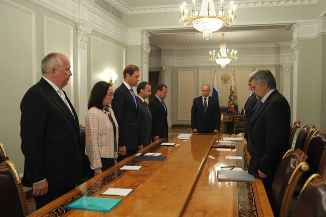 On July 18, 2014, President Putin's meeting on economic issues began with a moment of silence in honour of victims of plane crash over Ukrainian territory.